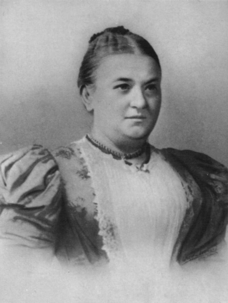 Auguste Amalie Blisse (geb. Schierjott) (17.9.1845 Berlin-Charlottenburg – 20.8.1907 Berlin-Wilmersdorf), wife of the German rich farmer Georg Christian Blisse (1823–1905). Together they set up the Auguste-Blisse-Foundation. An orphanage, which is used as a big day home for schoolchildren today.